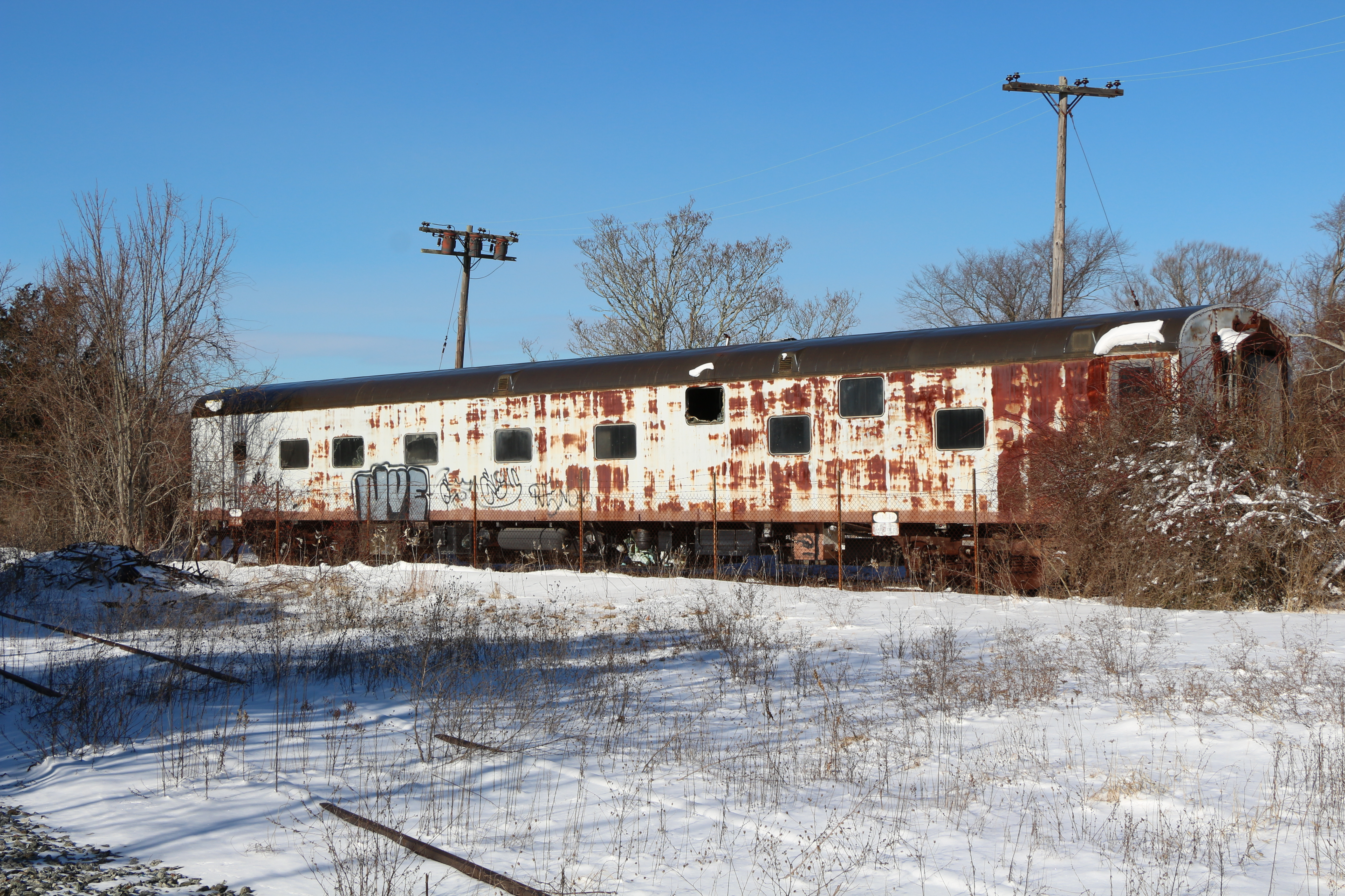 Former Chicago, Burlington & Quincy sleeper "Cheyenne" abandoned on a siding in Sandwich, Massachusetts